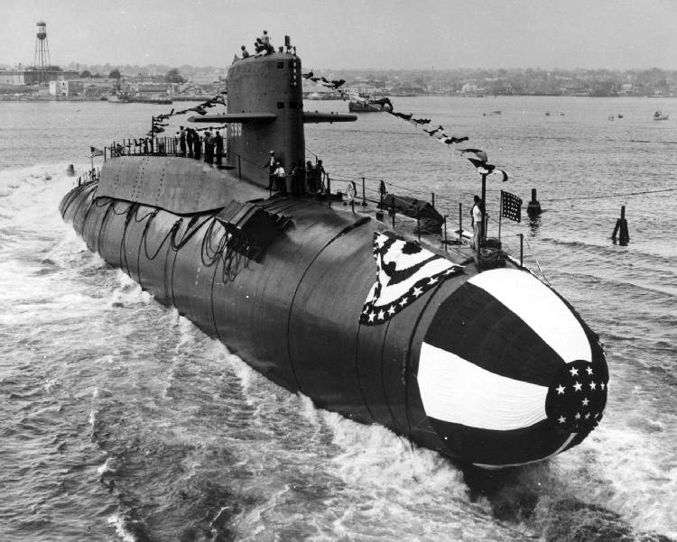 The ballistic-missile submarine USS George Washington (SSBN 589) slides down the ways during her launching ceremony at Electric Boat Division of General Dynamics Corporation, Groton.